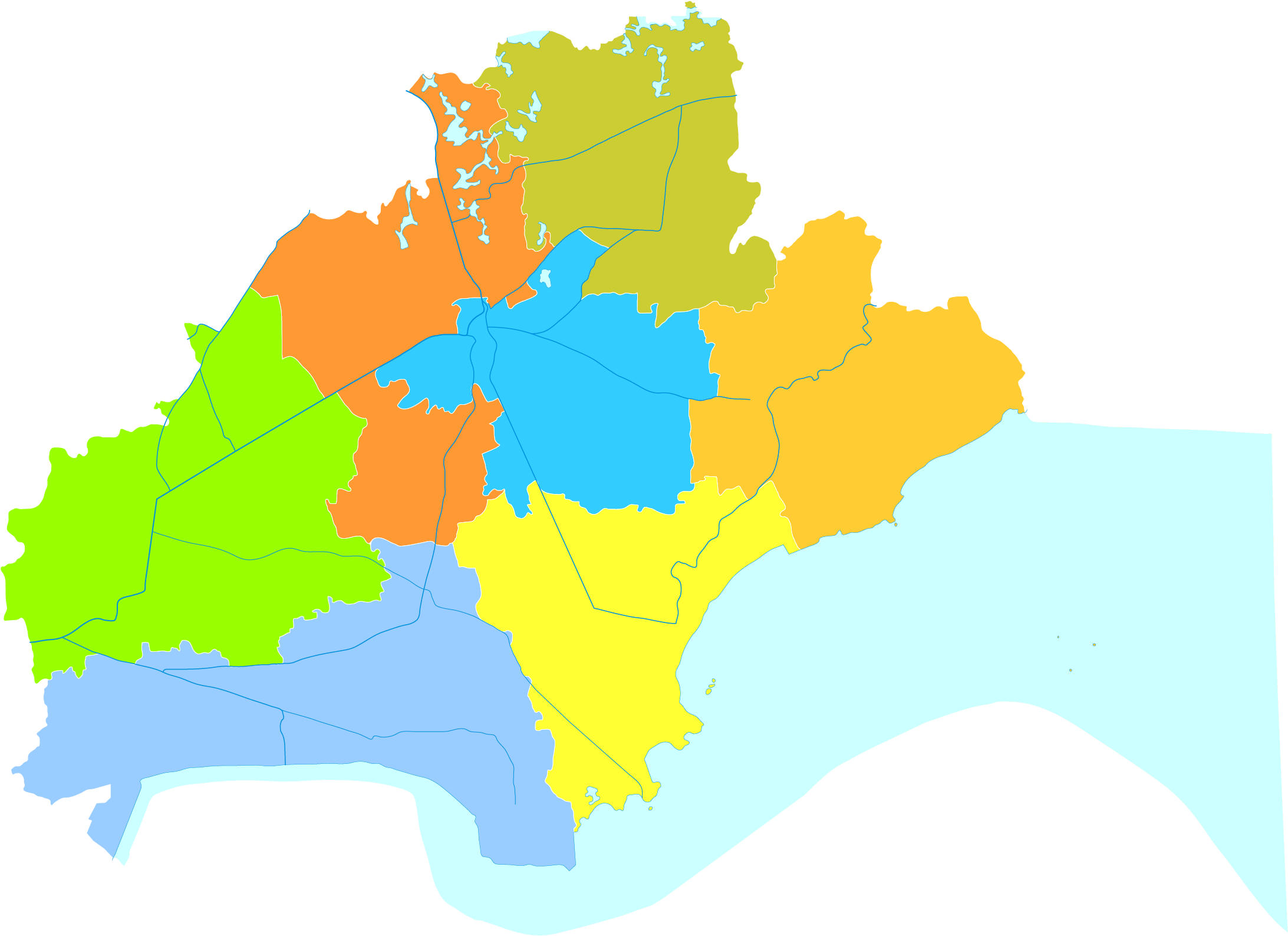 administrative divisions of Jiaxing City, Zhejiang, China